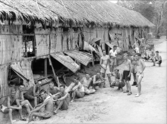 Ex-prisoners of war from the headquarters of the Australian 2/29th Infantry Battalion, at Changi, September 1945